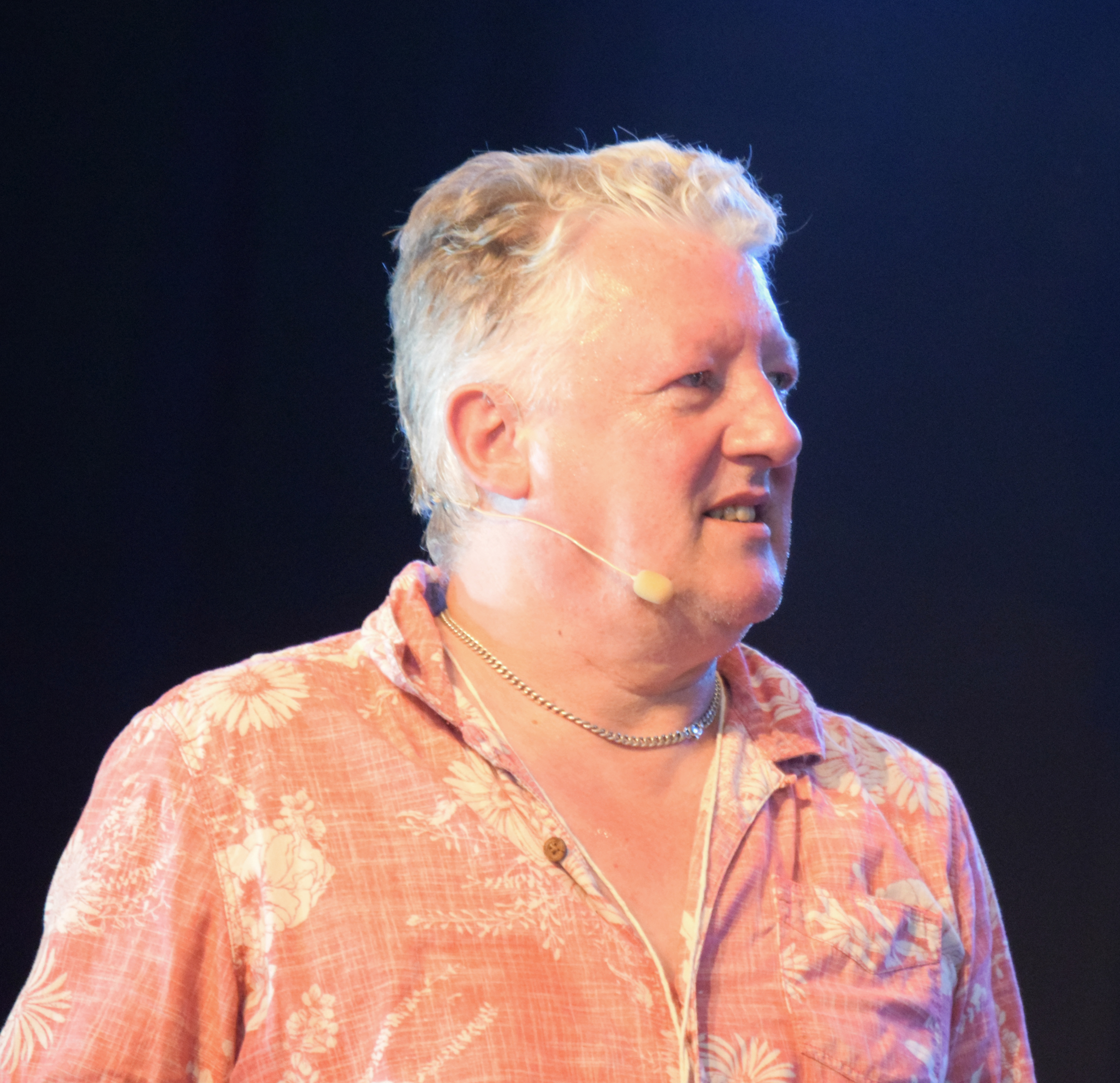 Andy Smart performing at the Glastonbury Festival 2019 with the Stephen Frost Improv All Stars.